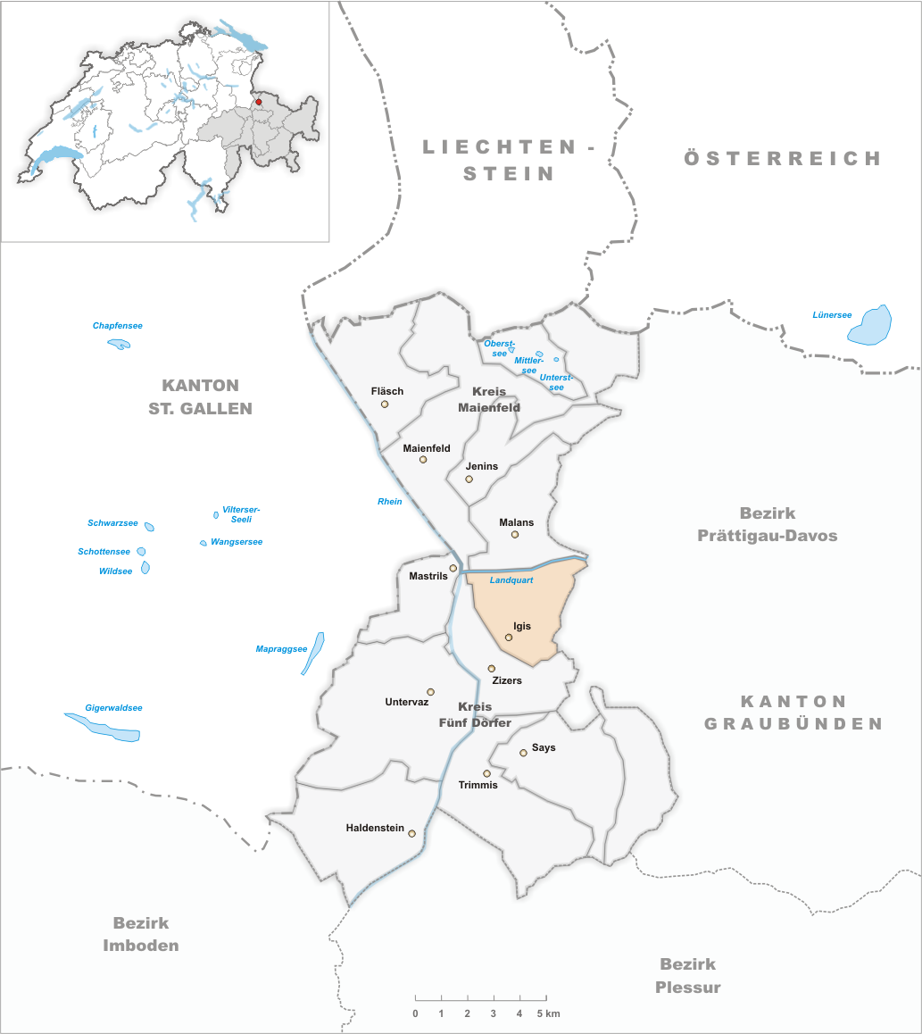 Municipality Igis